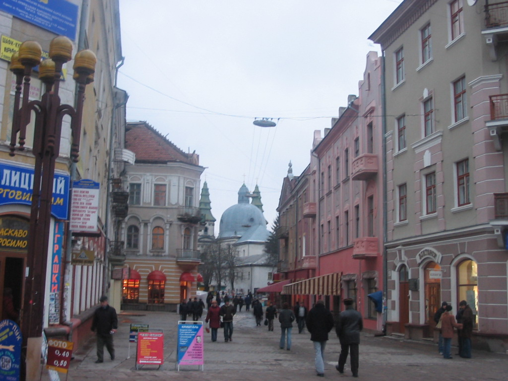 In the center of Ternopil